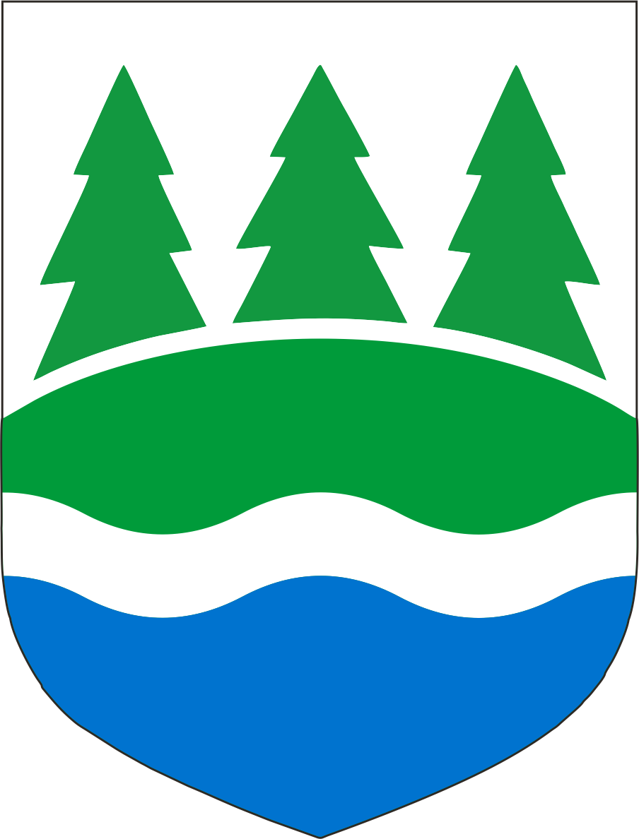 Coat of arms of Rõuge Parish (2018-)